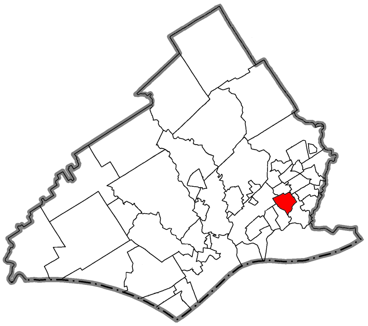 Showing the location within Delaware County, Pennsylvania.